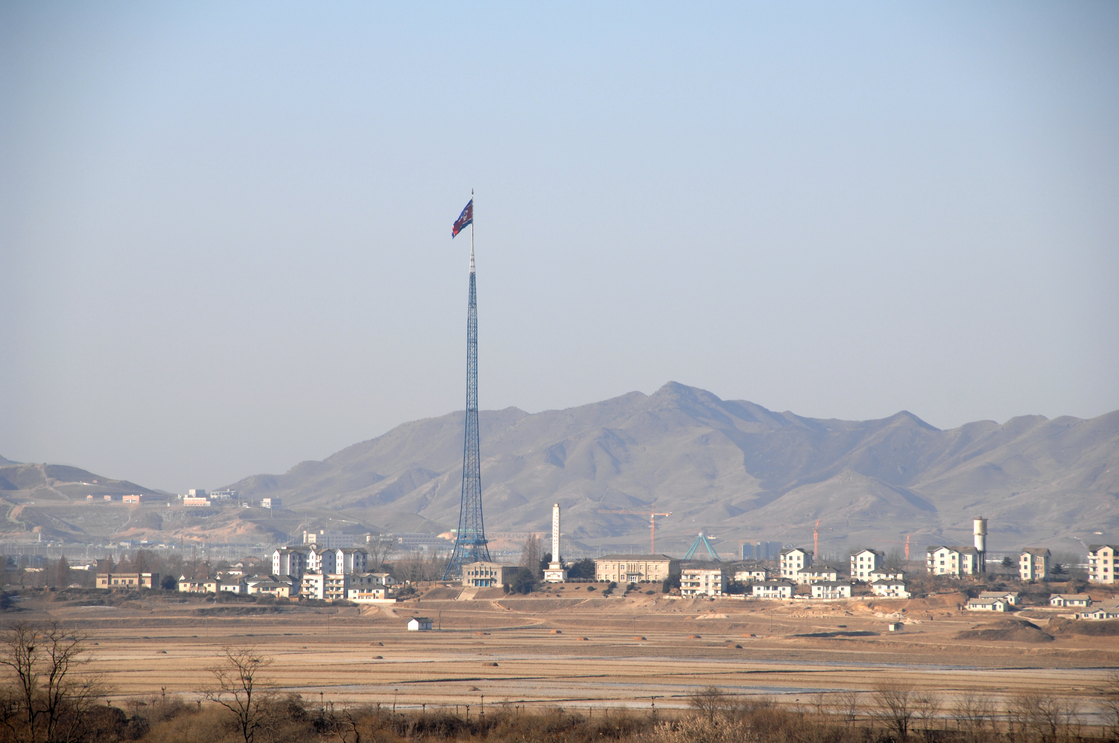 KijongDong North Korea. Tallest flag in the world. U.S. Army photo by Edward N. Johnson Cleared for public release. U.S. Army official Korean Demilitarized Zone image archive